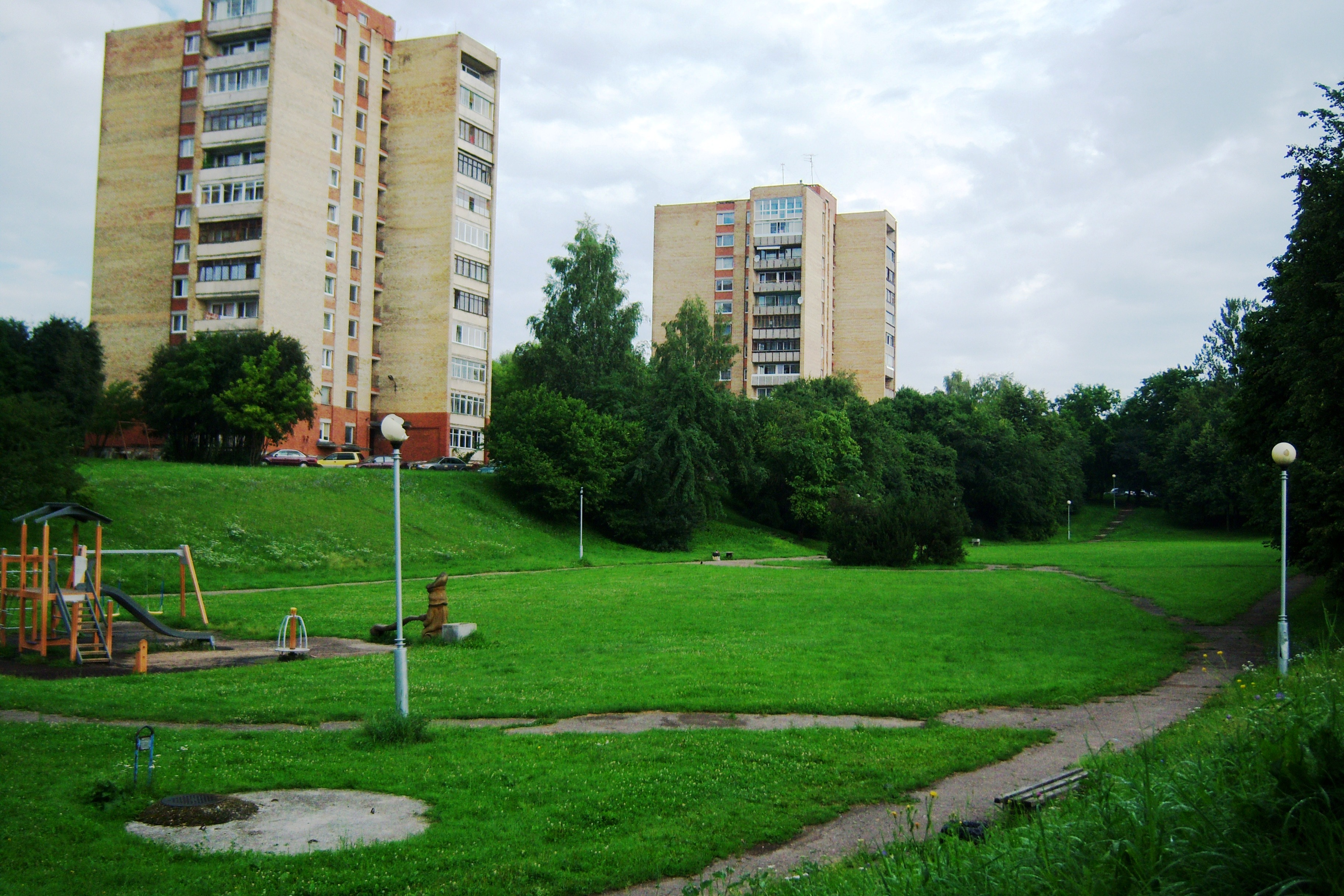 Kovo 11-osios park, Kaunas, Lithuania